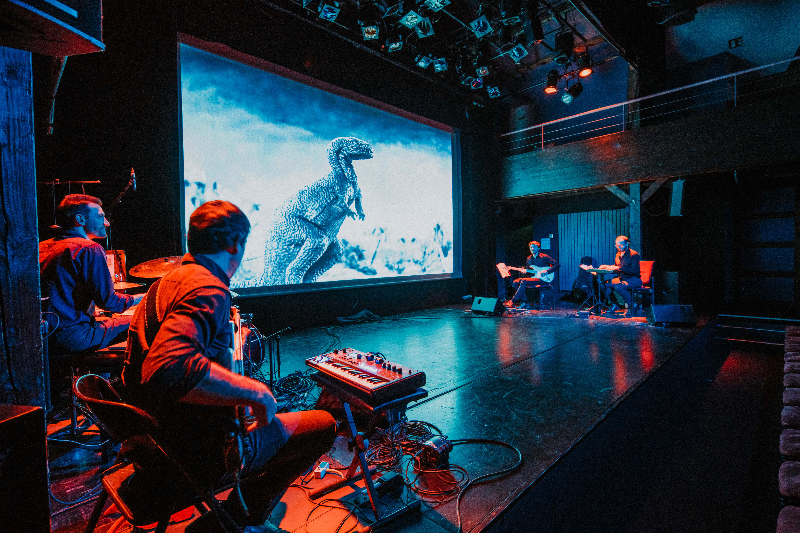 Live photography of the french band Ozma